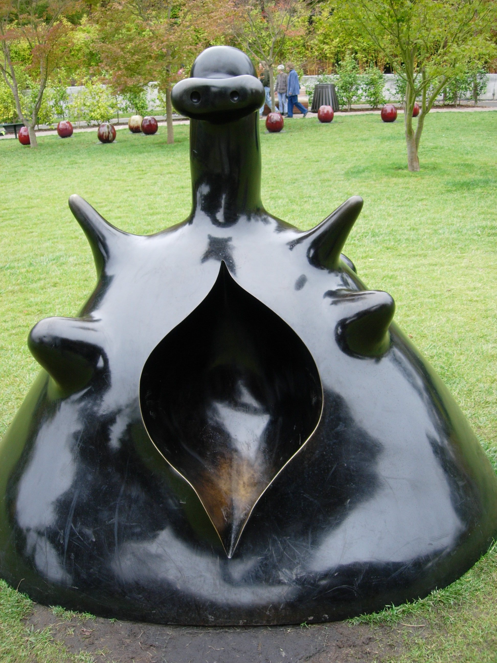 Miro's Grand Maternite, San Francisco.